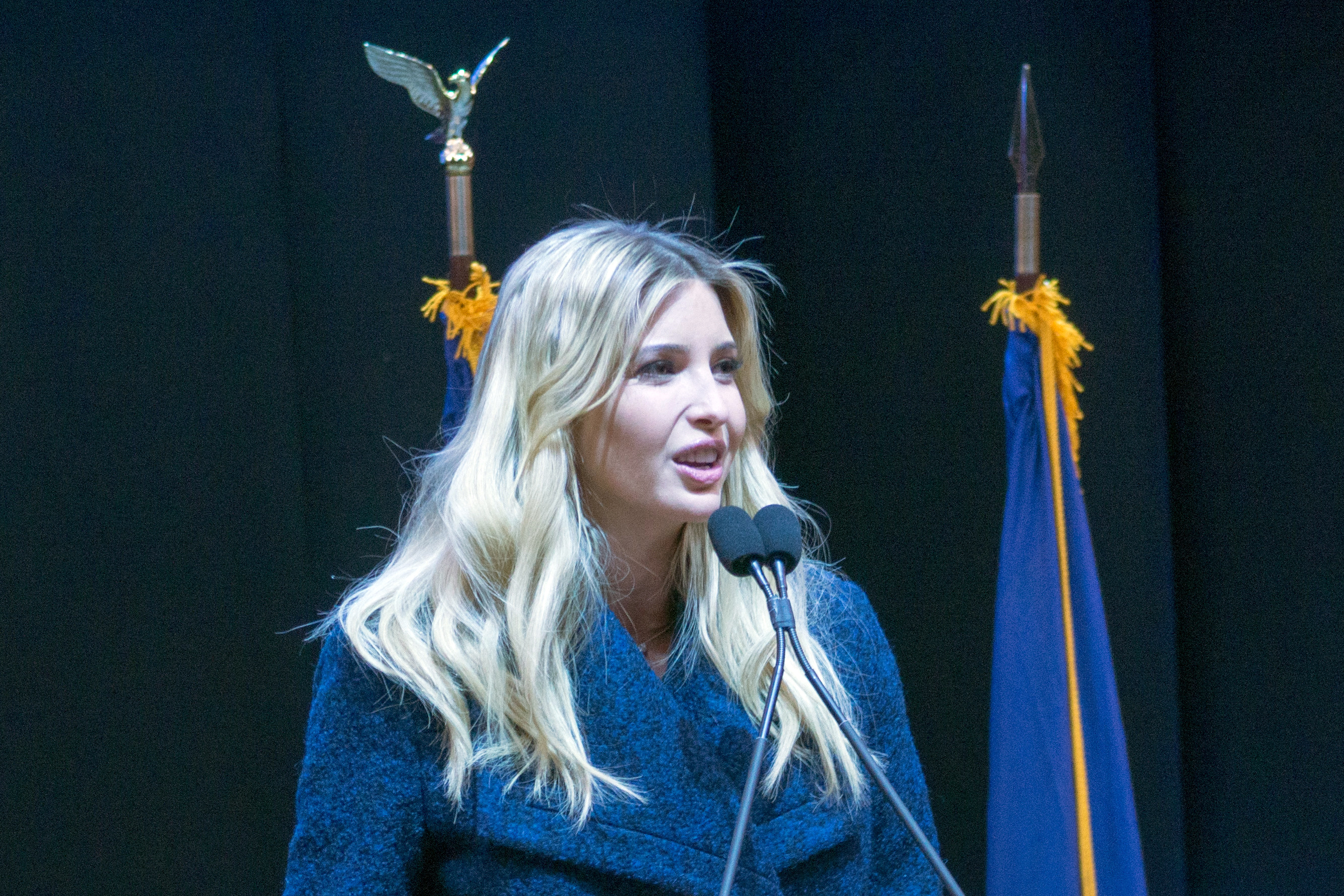 Ivanka Trump speaking at a rally for her father, Donald Trump, at Verizon Wireless Arena in Manchester, New Hampshire, February 8, 2016